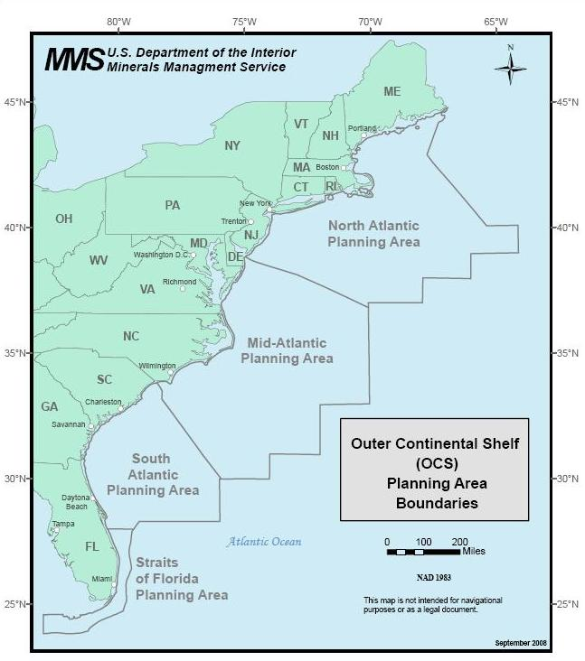 Map of planning areas for US federal waters off the Atlantic coast